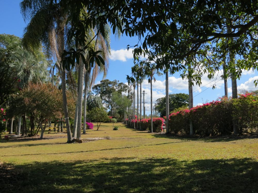 Thomas Park, former main drive (2014)